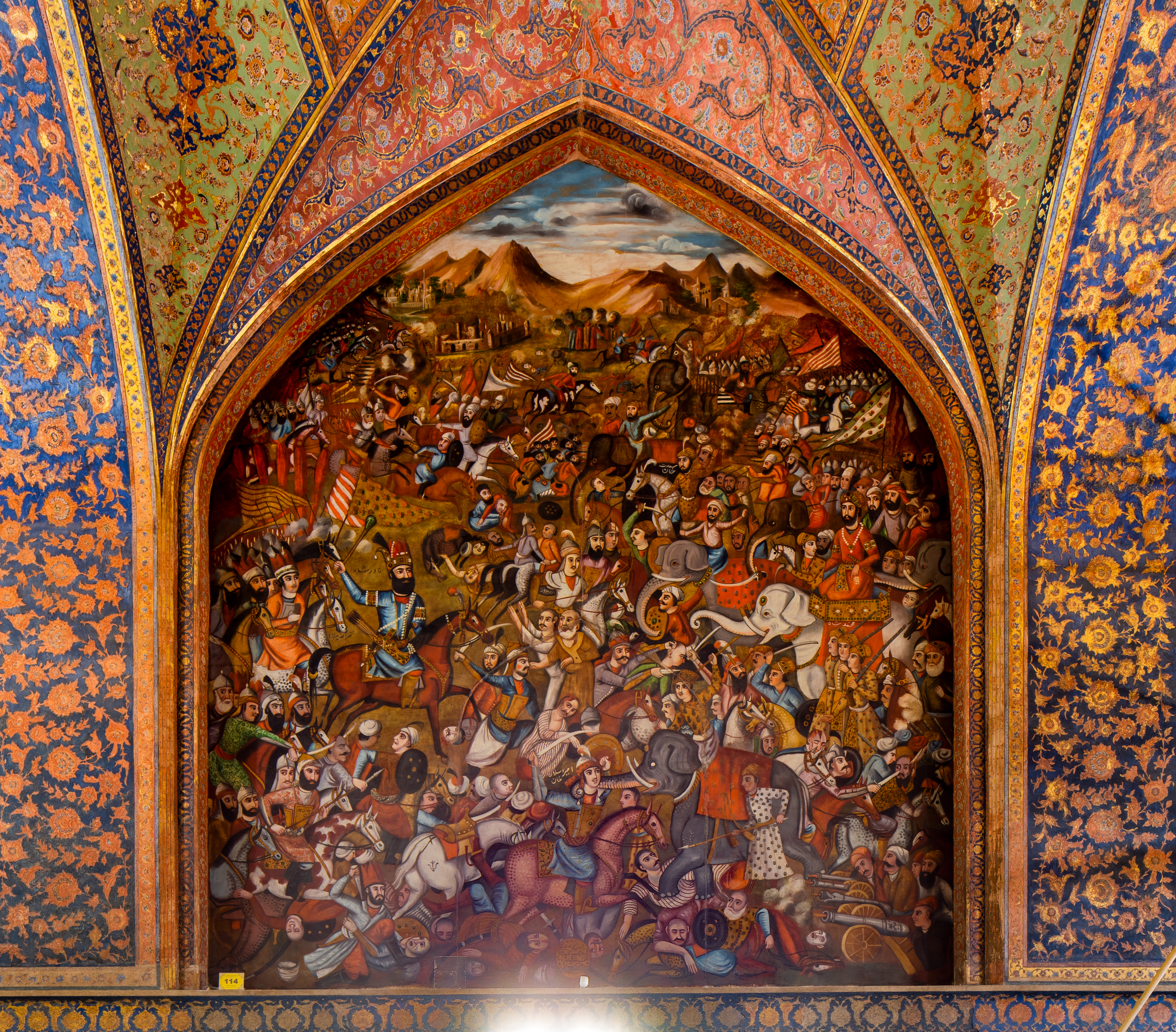 Battle of Karnal painting in the central audience hall of Chehel Sotoun